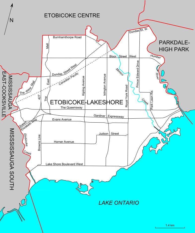 Map of the Ontario federal and provincial riding of Etobicoke-Lakeshore (boundaries defined federally in 2003 and adopted provincially in 2007)